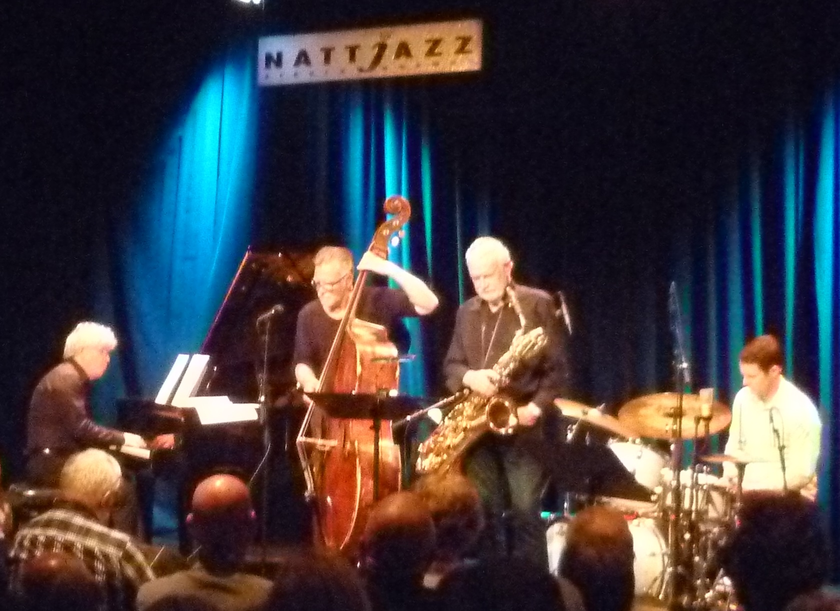 Bjørn Alterhaug Quintet in Bergen, Norway, at USF Studio, Verftet, Nattjazz 2016.